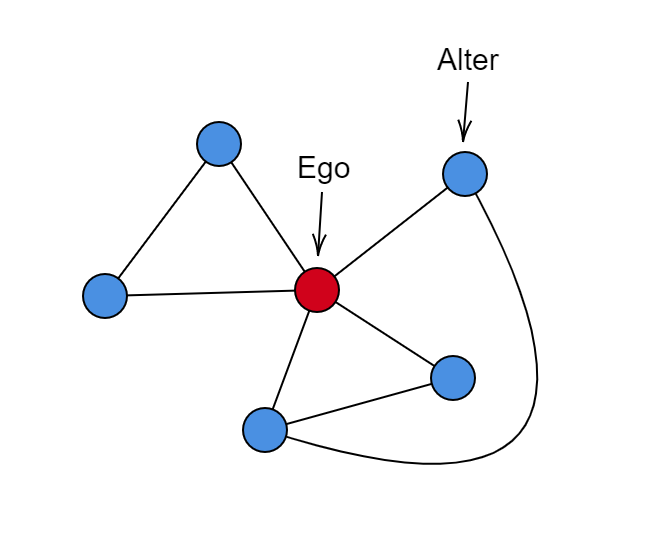 Generic Egocentric Network